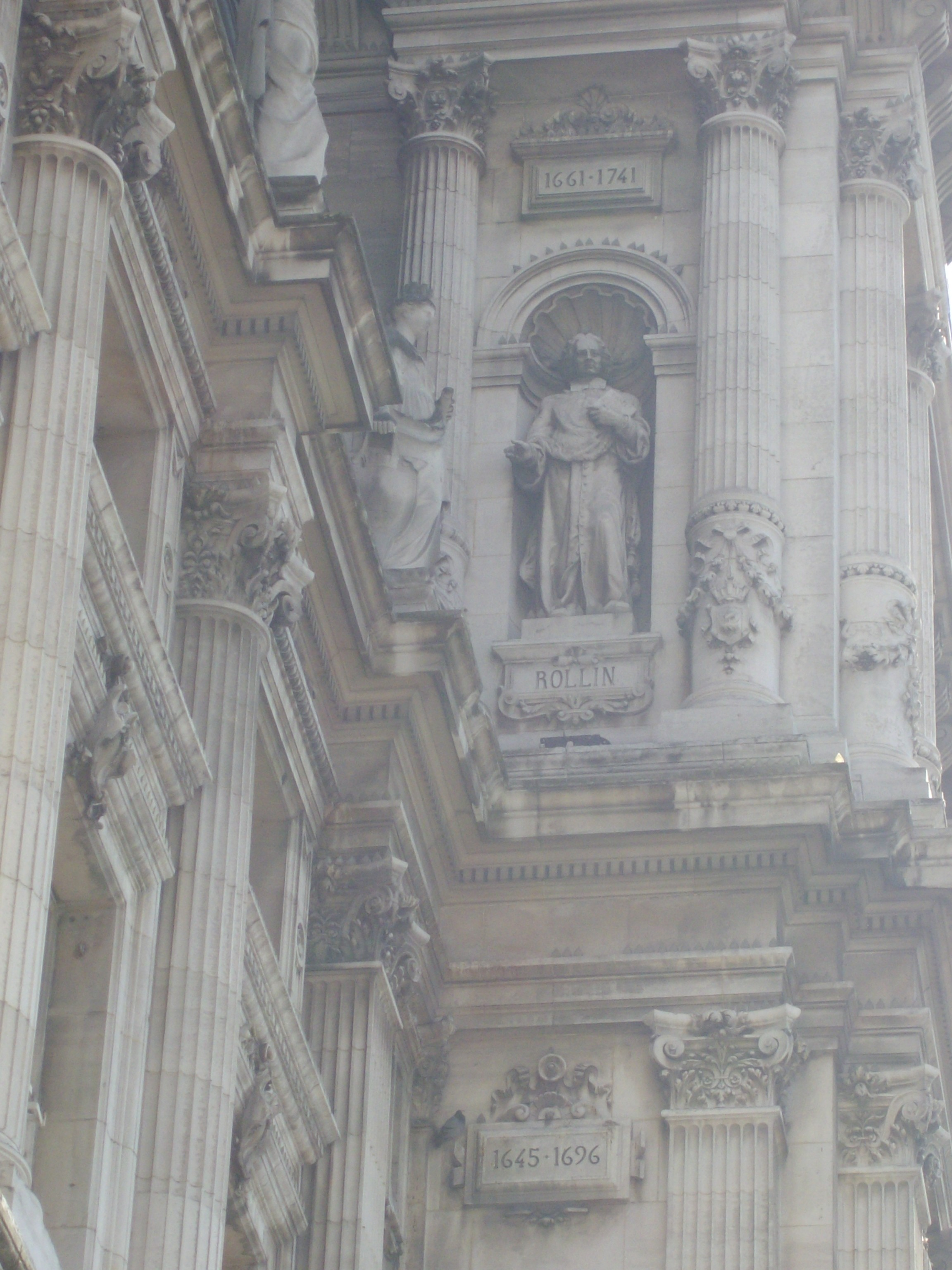 Statues of the City Hall in Paris, France